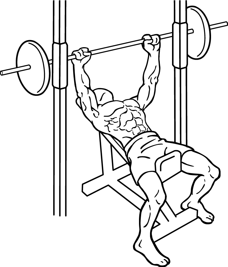 an exercise of chest